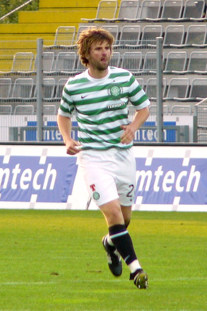 Paddy McCourt, Northern Irish footballer